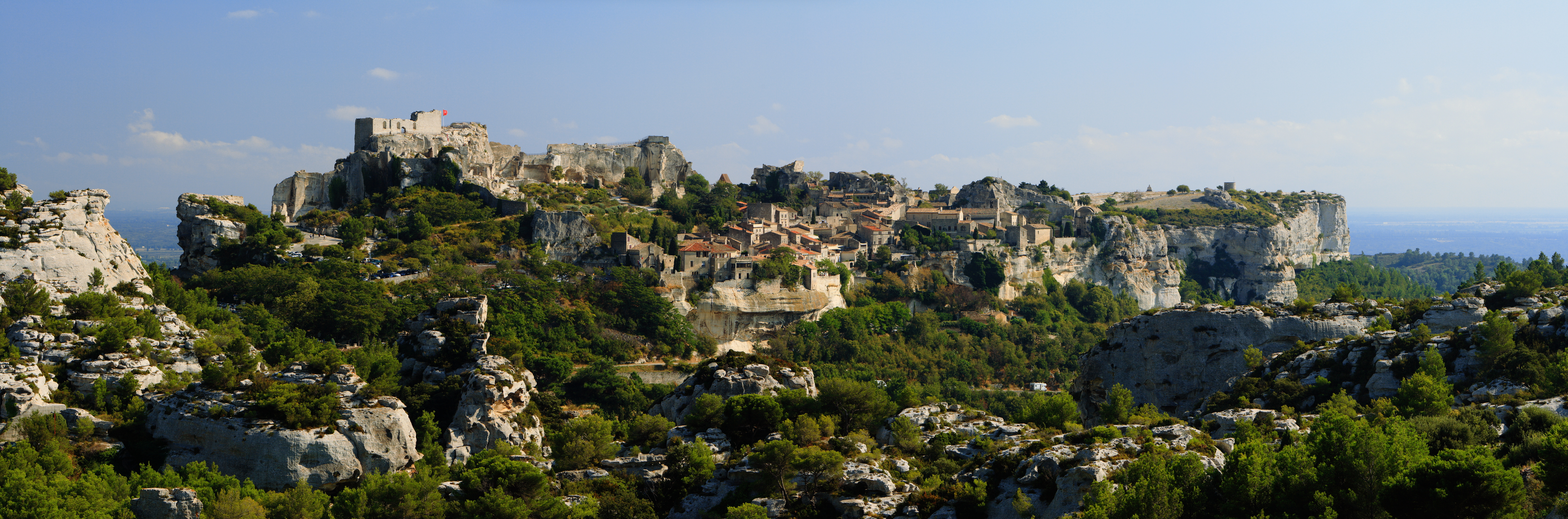 Les Baux-de-Provence village, seen from the D27 road, on the North-West side. This panorama is a mosaic of 2x4 landscape pictures taken at 105mm (168mm in 35mm equiv.), f/8.0, 1/125sec and ISO 100. Sitching was done with Hugin and Enblend and resulting image was postprocessed in Gimp.